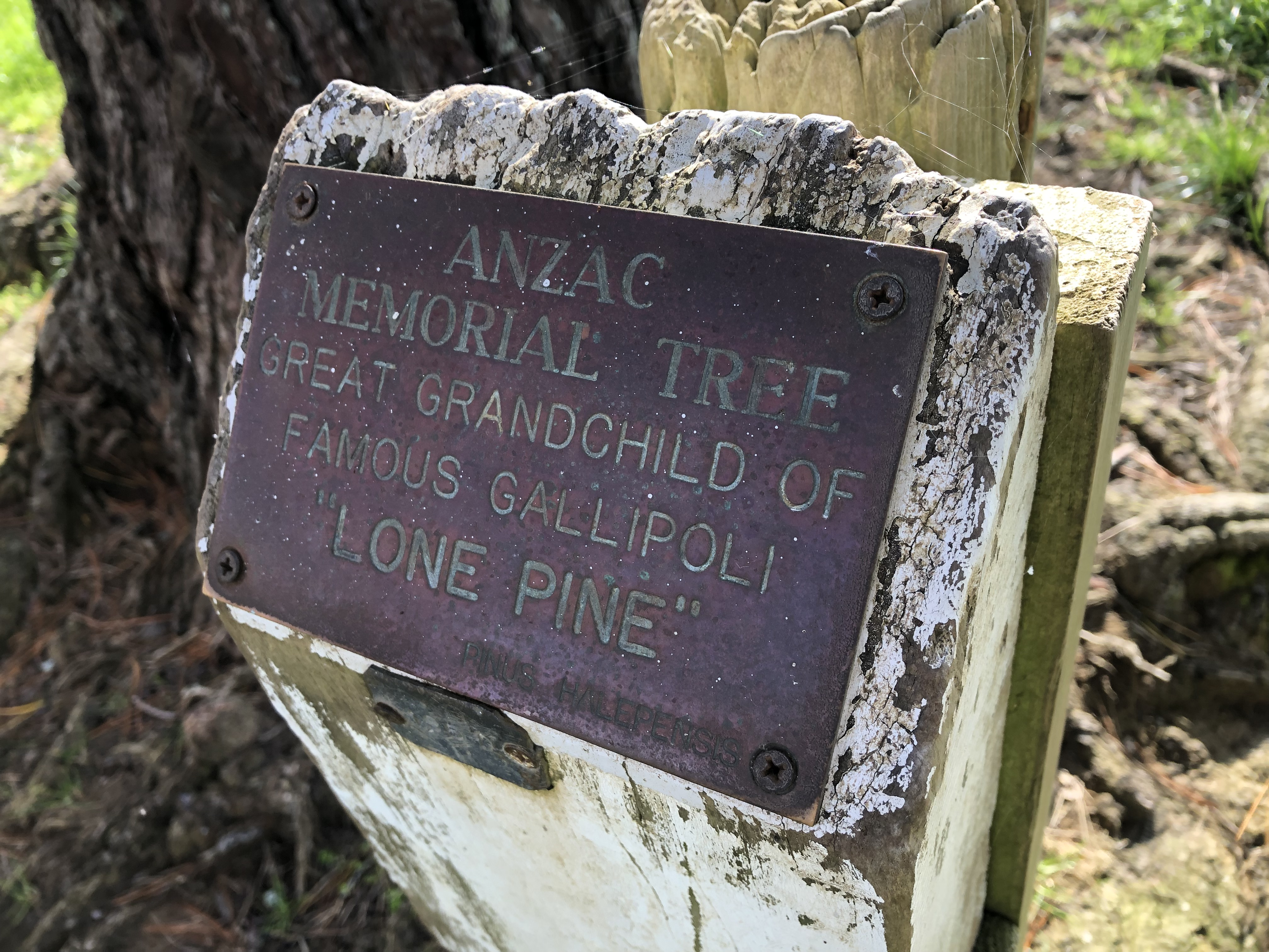 Lone Pine plaque, Te Mata (Waikato District) - tree planted from seed by J L Y Martyn on 29 September 1961